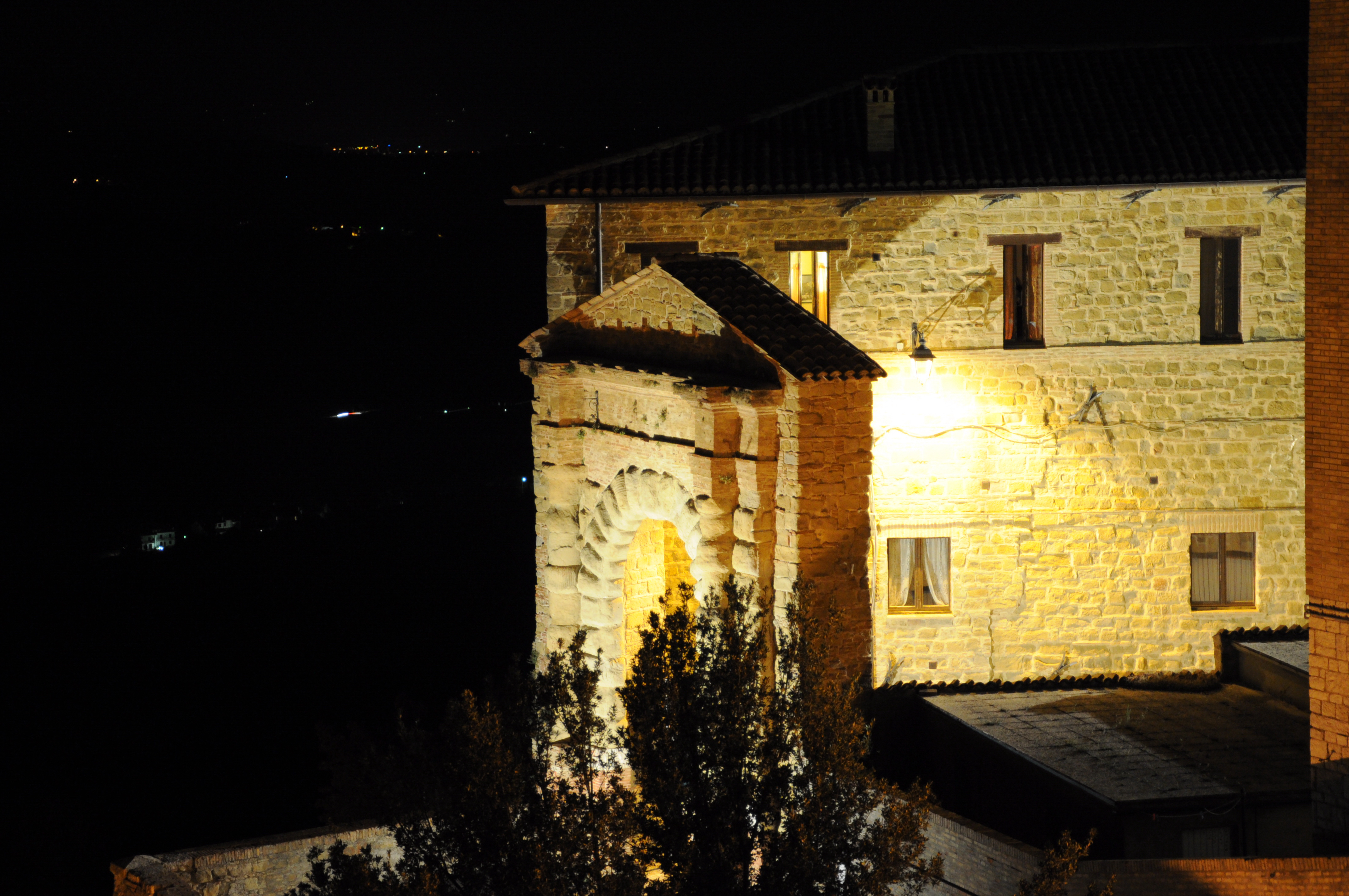 Malatesta Gate in Camerino